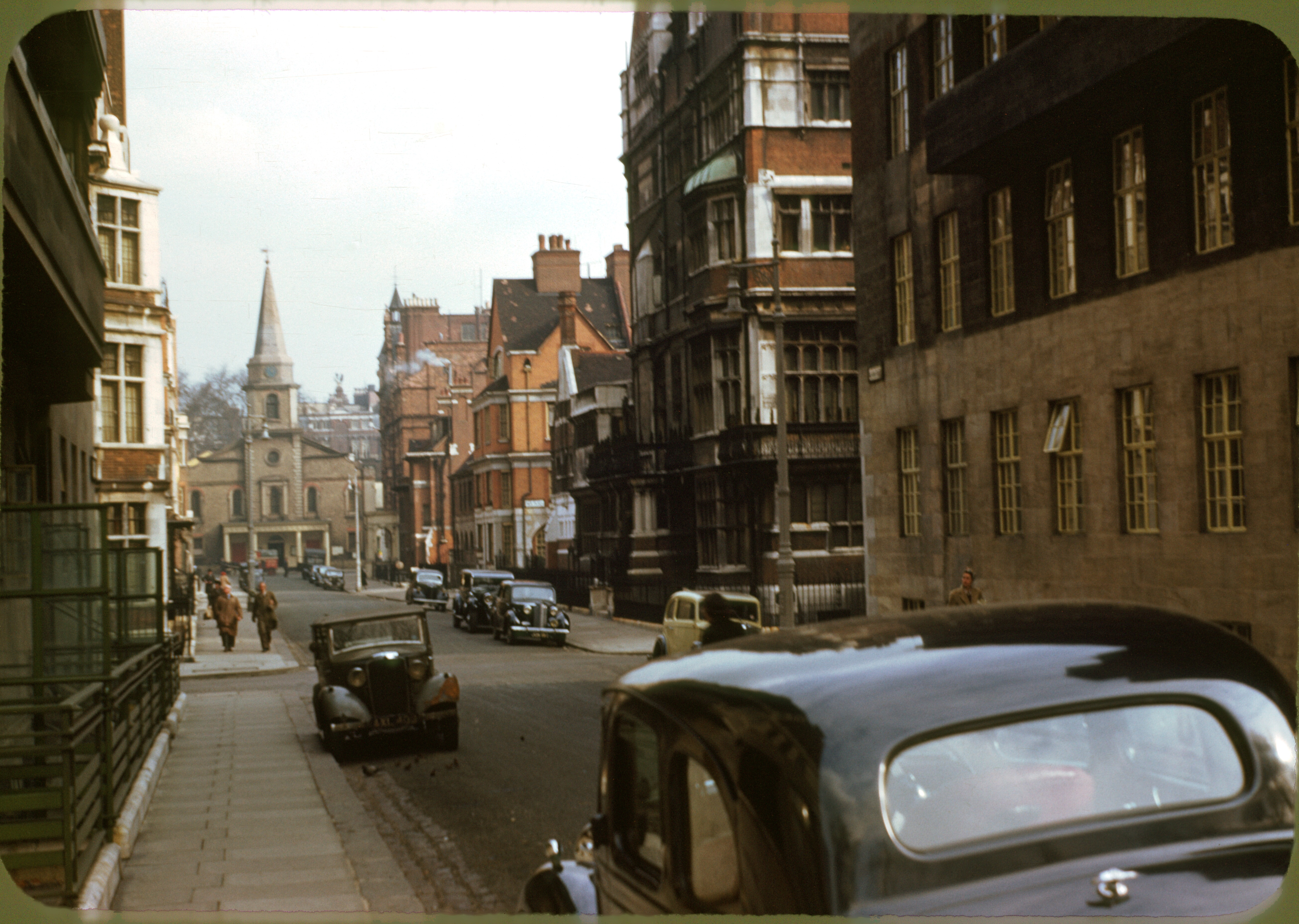 View east along Aldford Street, Mayfair, London W1, with Grosvenor Chapel at the end. Other images by this contributor: User:Sba2. Use this image as needed, but for uses other than personal, please credit as "Photo by Chalmers Butterfield".